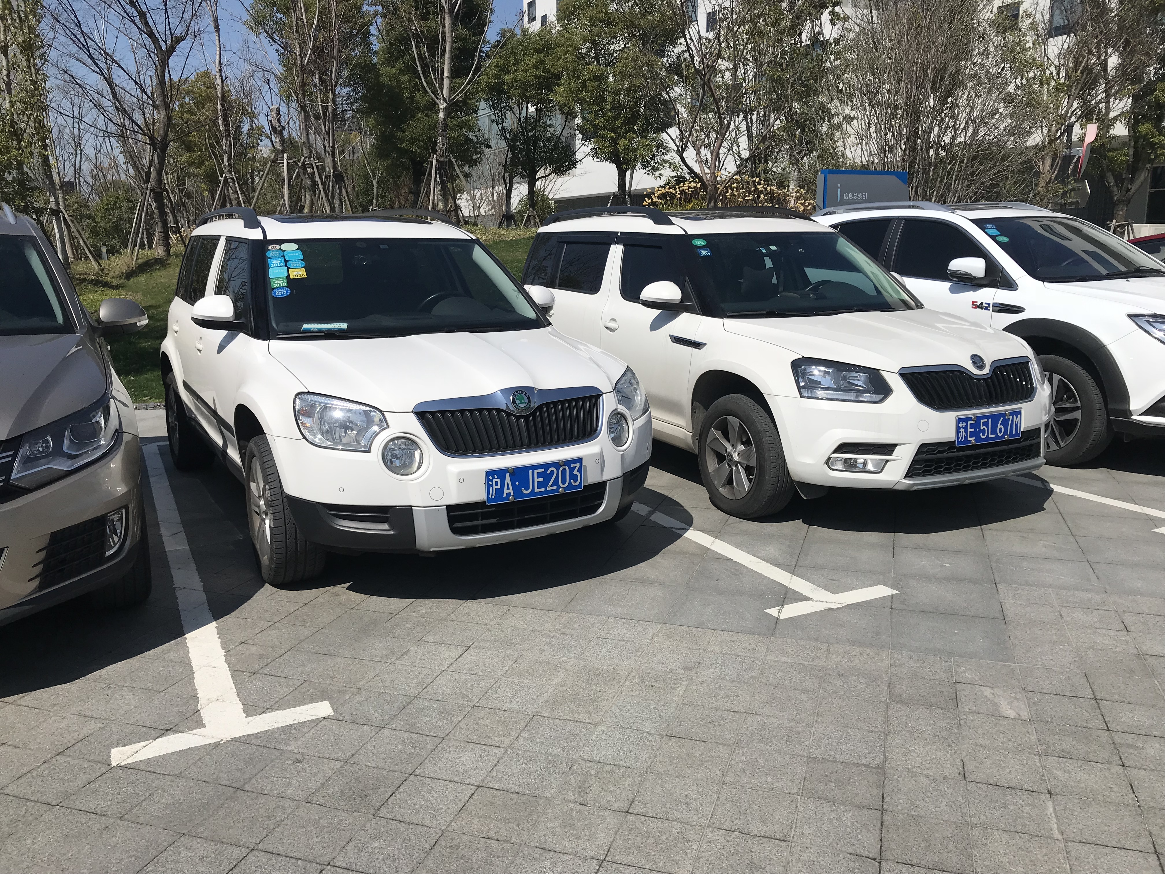 Skoda Yetis in Shanghai